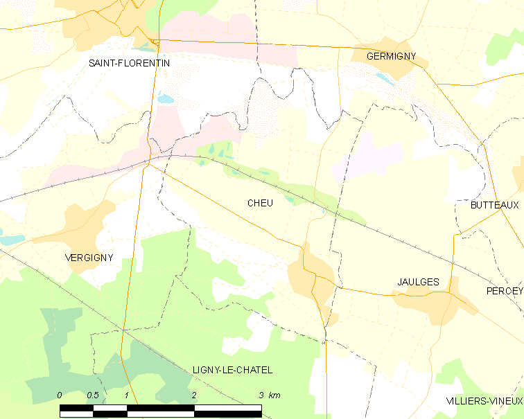 Map of French municipality Chéu